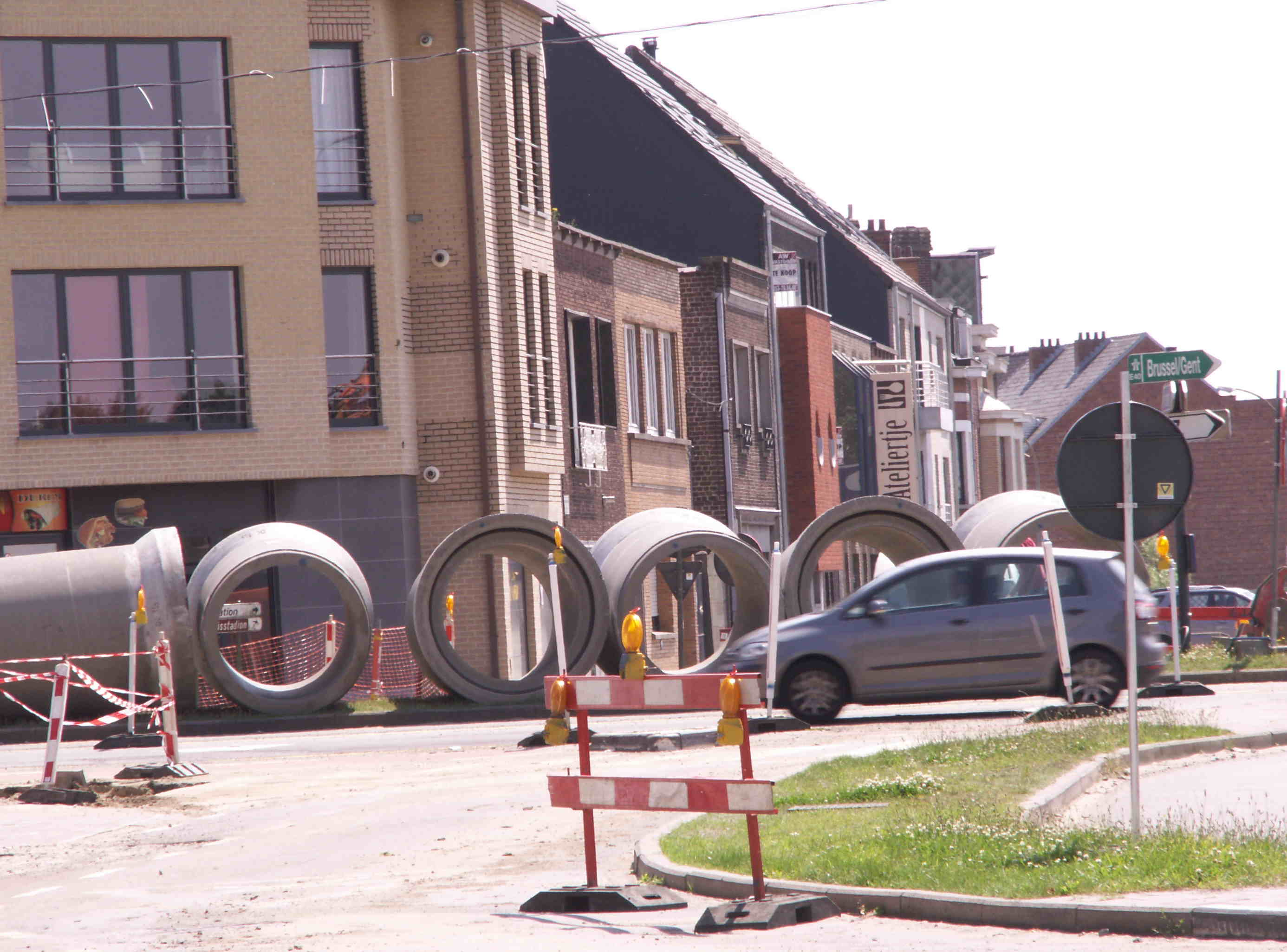 Sewerage pipes being laid by the city's water supply company (called TMVW). In Belgium, at present (2007), large revisions are in progress to convert the current sewerage to an entirely-combined sewer-system. As such, a lot of pipes are dug up and replaced by larger (double) sewerage pipes. Note that these pipes are main sewerage arteries and therefore larger than the piping used nearer to the consumer (thus the piping directly placed in/near houses/dwelling themselves).